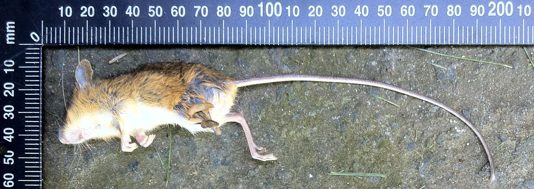 A Woodland Jumping Mouse killed by a cat in Sheffield, Vermont, with ruler to show length of tail.